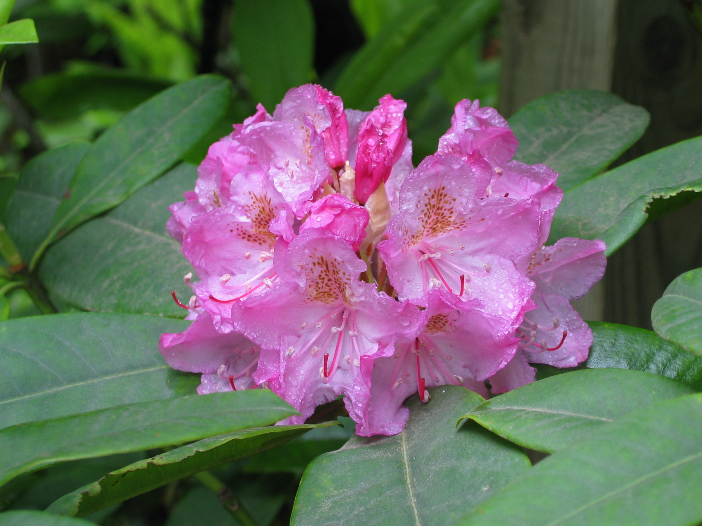 This is a flower of a Pacific Rhodendron bush found on Mt. Walker, in the Olympic Mountains, Washington. The Pacific (or Coast) Rhodendron, Rhododendron macrophyllum, is the state flower of Washington. The picture was taken with a Canon G3.